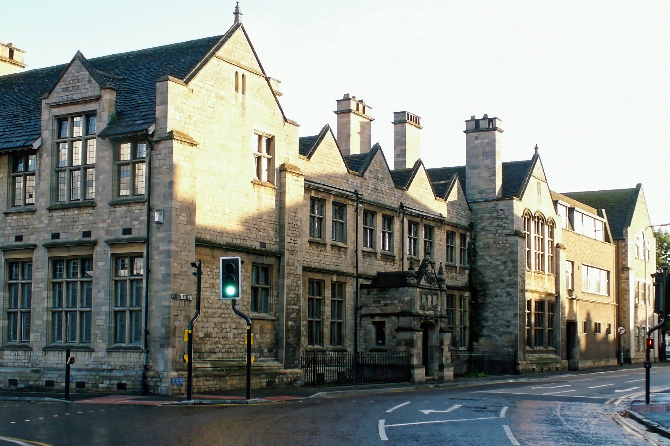 The Kings School, Grantham, Lincs, U.K.